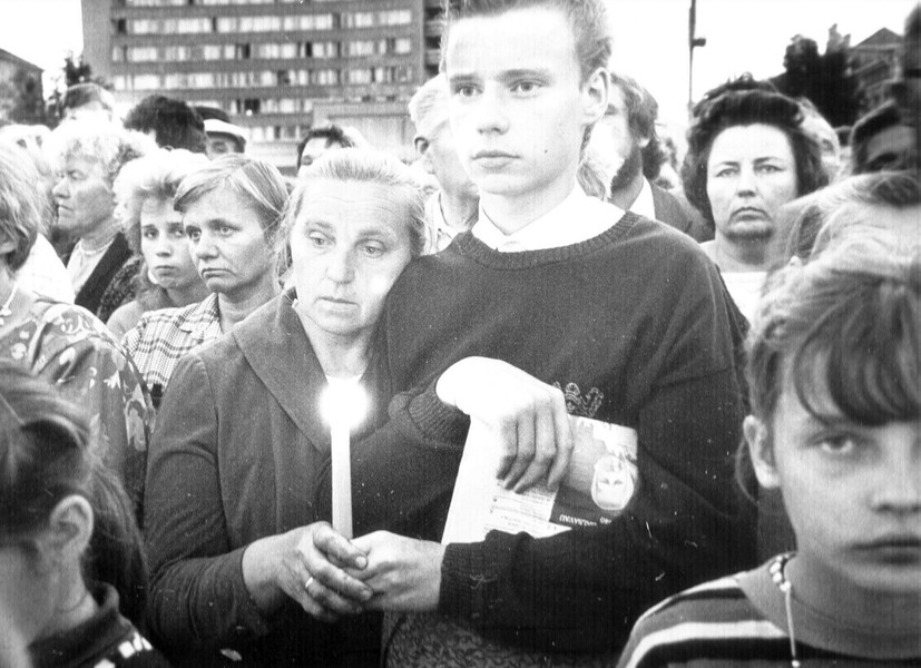 Event held in the present-day Freedom Square (then Lenin Square) in Panevėžys on the day of the Baltic Way